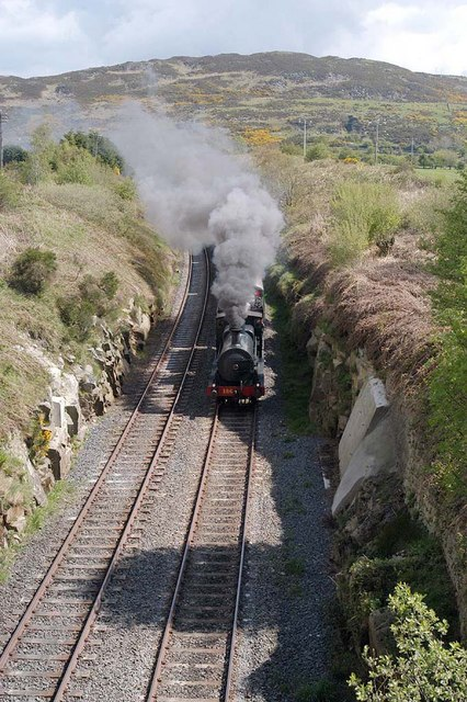 Preserved Steam passing Kileen Preserved steam locomotive GSWR 186 working the Northern leg of the Suir Valley railtour, and is photographed approaching Kileen Bridge which is located on the A1 Belfast to Dublin main road. This railway cutting is also known as the Gap of the North.